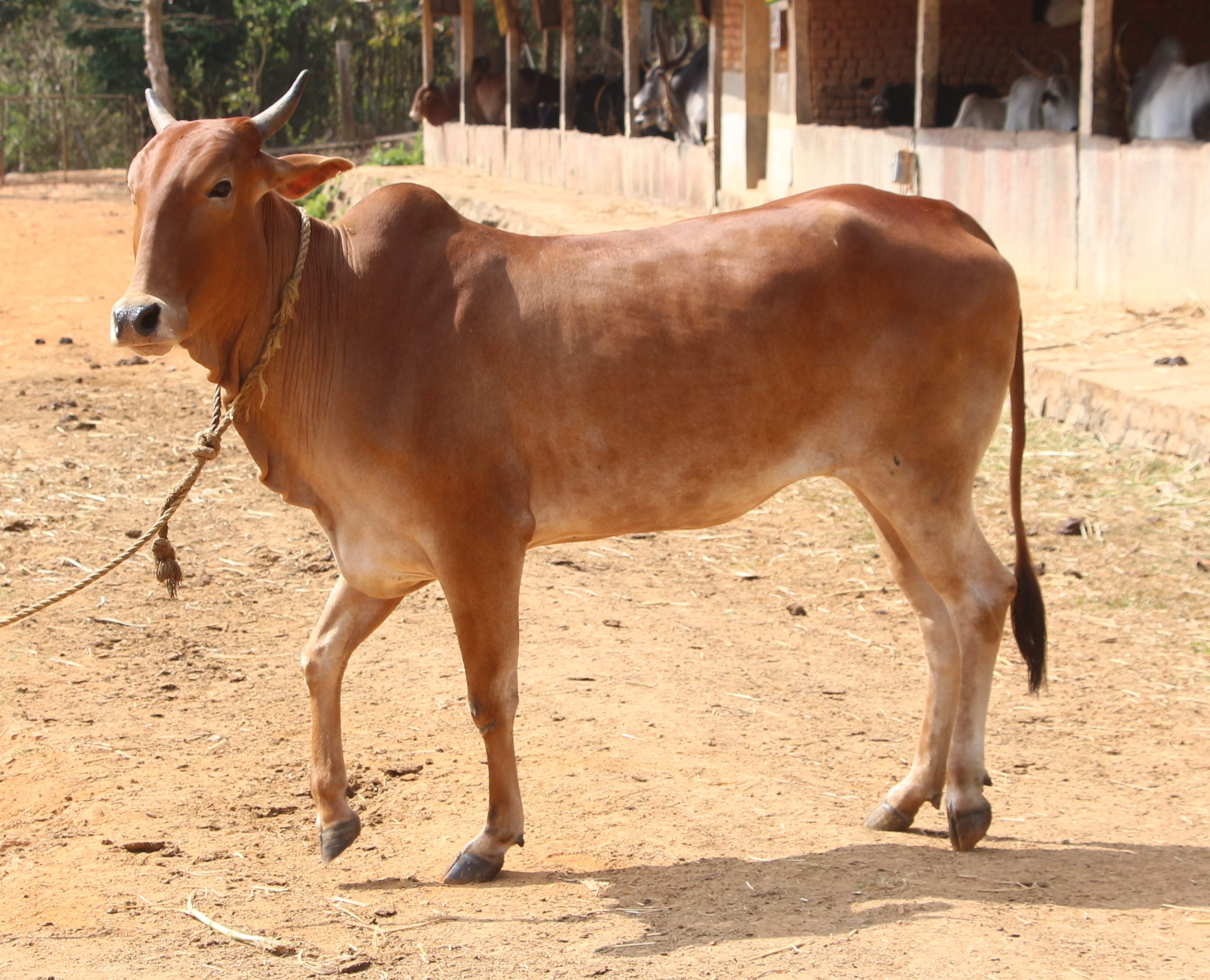 Indian cow breed Red Kandhariಕನ್ನಡ: ಭಾರತೀಯ ಗೋತಳಿ ಲಾಲ್ ಕಂಧಾರಿ